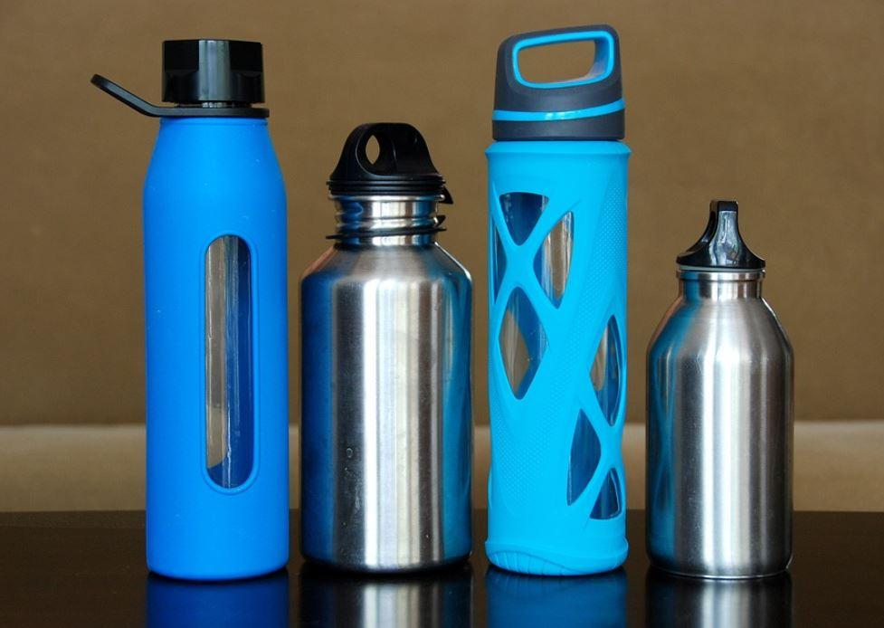 Reusable water bottles.